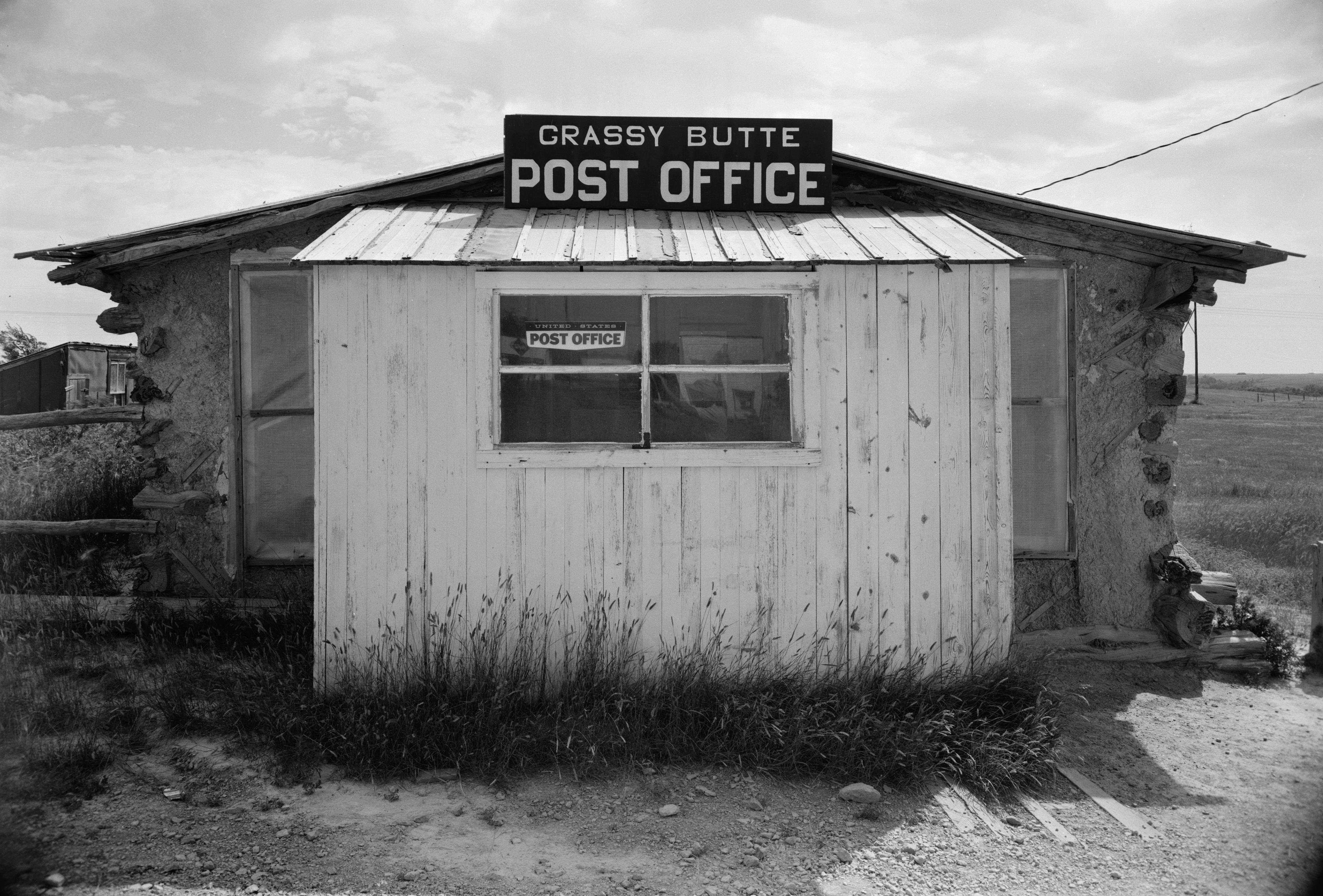 Front of the Grassy Butte Post Office — located off U.S. Route 85 in Grassy Butte, North Dakota, United States. Built in 1914, the post office is listed on the National Register of Historic Places.